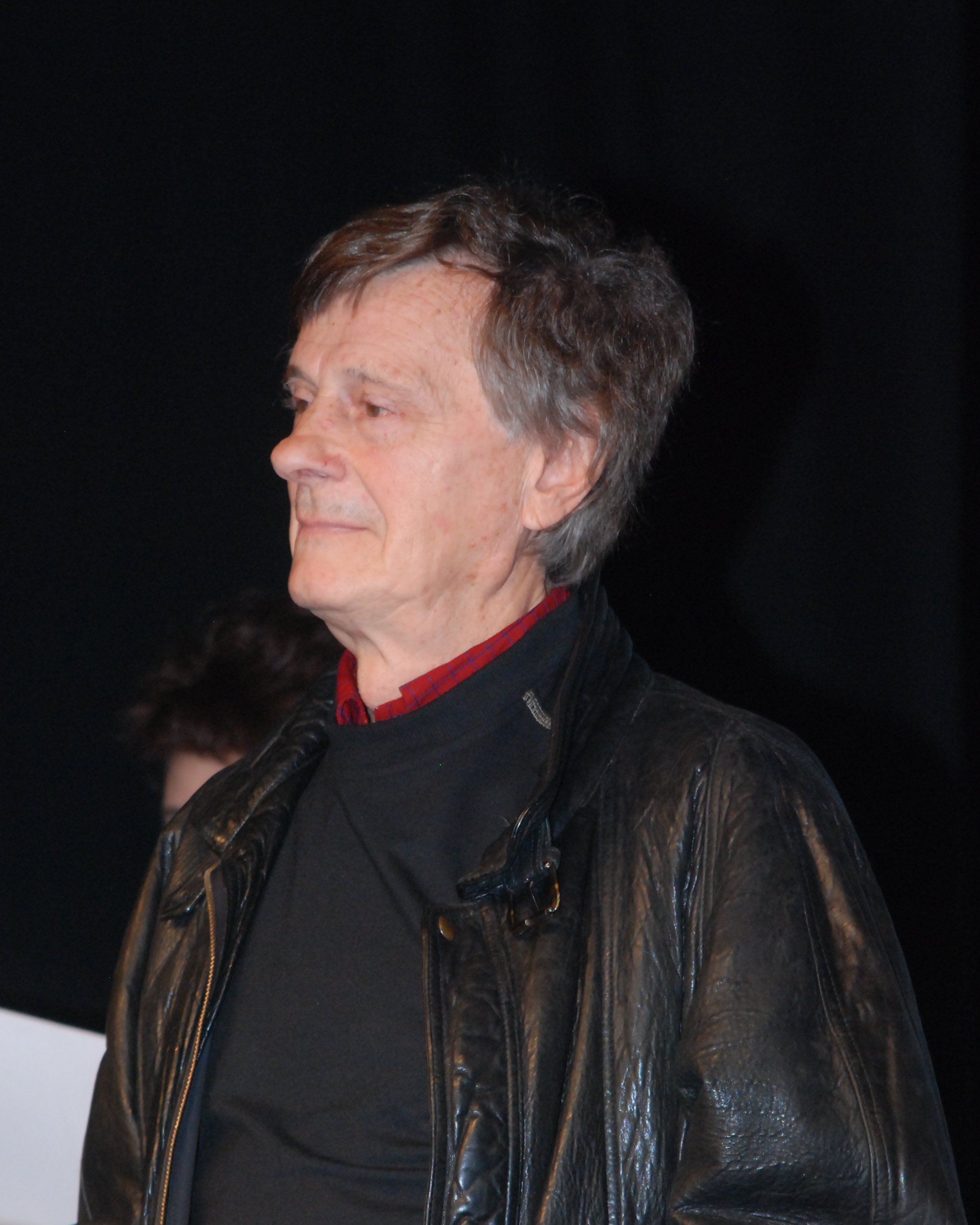 Theatre director Boro Drašković